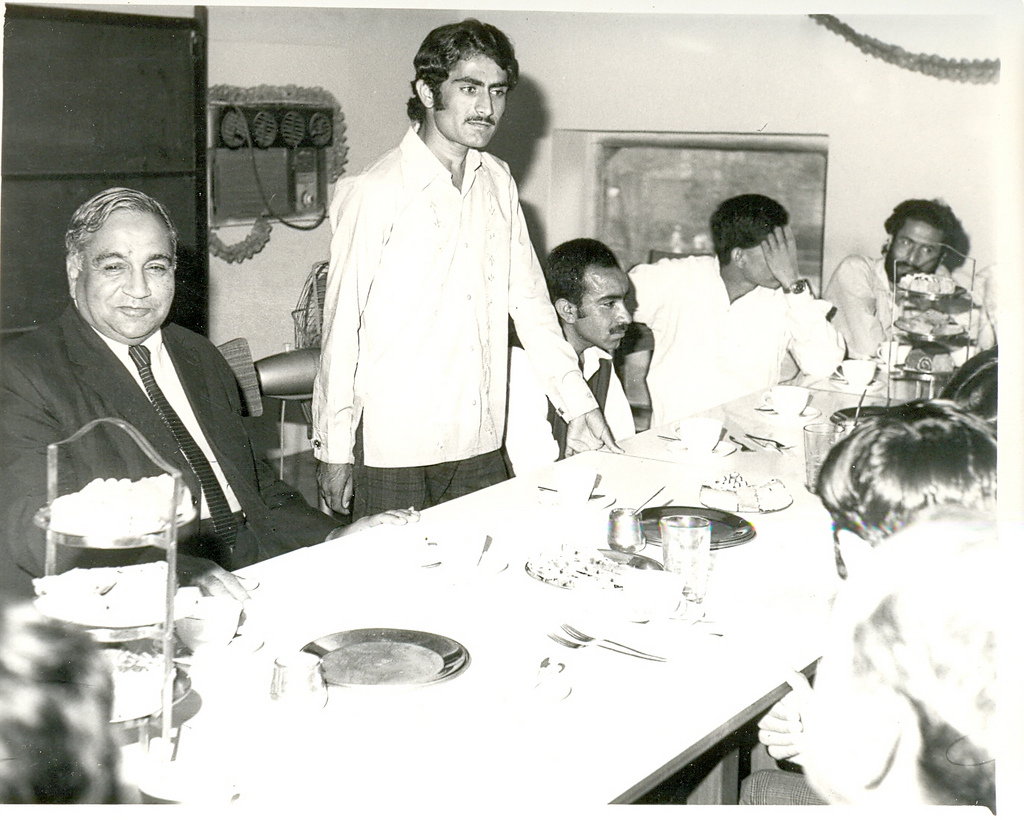 Shaheed Mir Nooruddin Mengal making a speech in Lahore during his student life in UET, Lahore. Mahmood Ali Qasuri is also present.